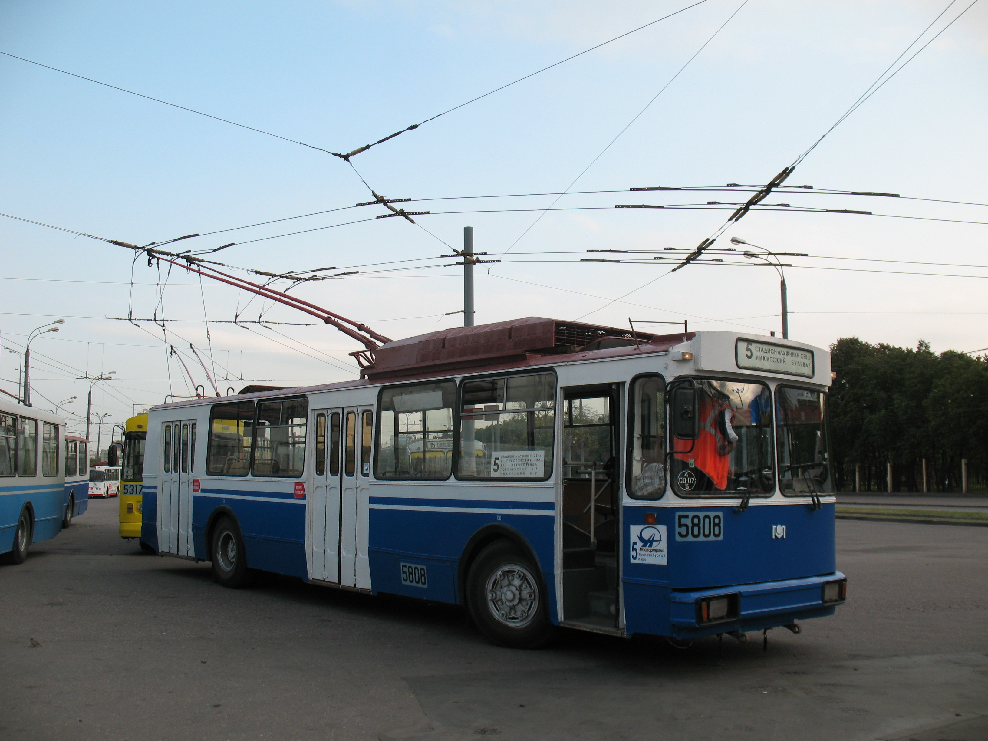 Moscow trolleybus AKSM-101PS 5808